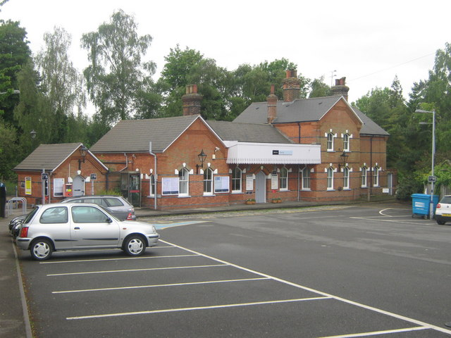 Charing railway station Original description: Charing Railway Station On Station Road. Links Charing with Ashford (going left) and Maidstone (heading right).